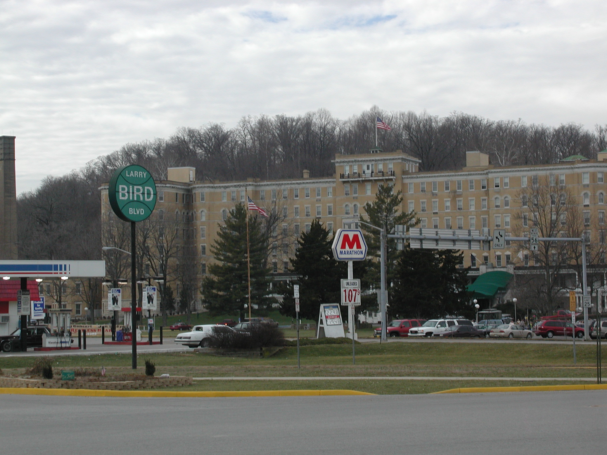 French Lick Springs Hotel, located in French Lick, Indiana, United States. Built in 1902 and since converted into a casino, it and the surrounding grounds are listed together on the National Register of Historic Places.